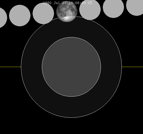 July 1980 lunar eclipse chart of moon's path through the earth's shadow. thumb